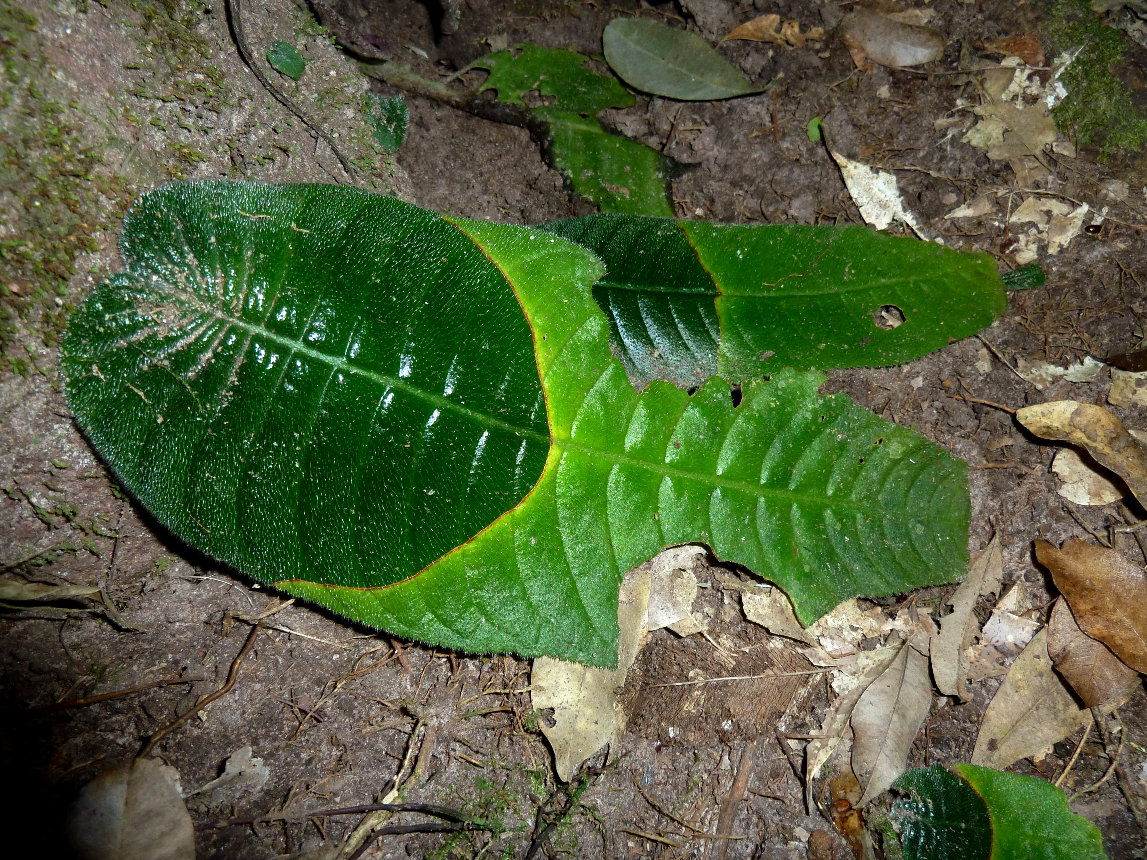 The unifoliate Molweni streptocarpus in the upper Molweni gorge, Krantzkloof Nature Reserve, South Africa. The bicoloured leaves are due to the (brown and yellow) abscission line that formed midway down the leaves. The leaf will die back from the leaf tip to this line as winter approaches.